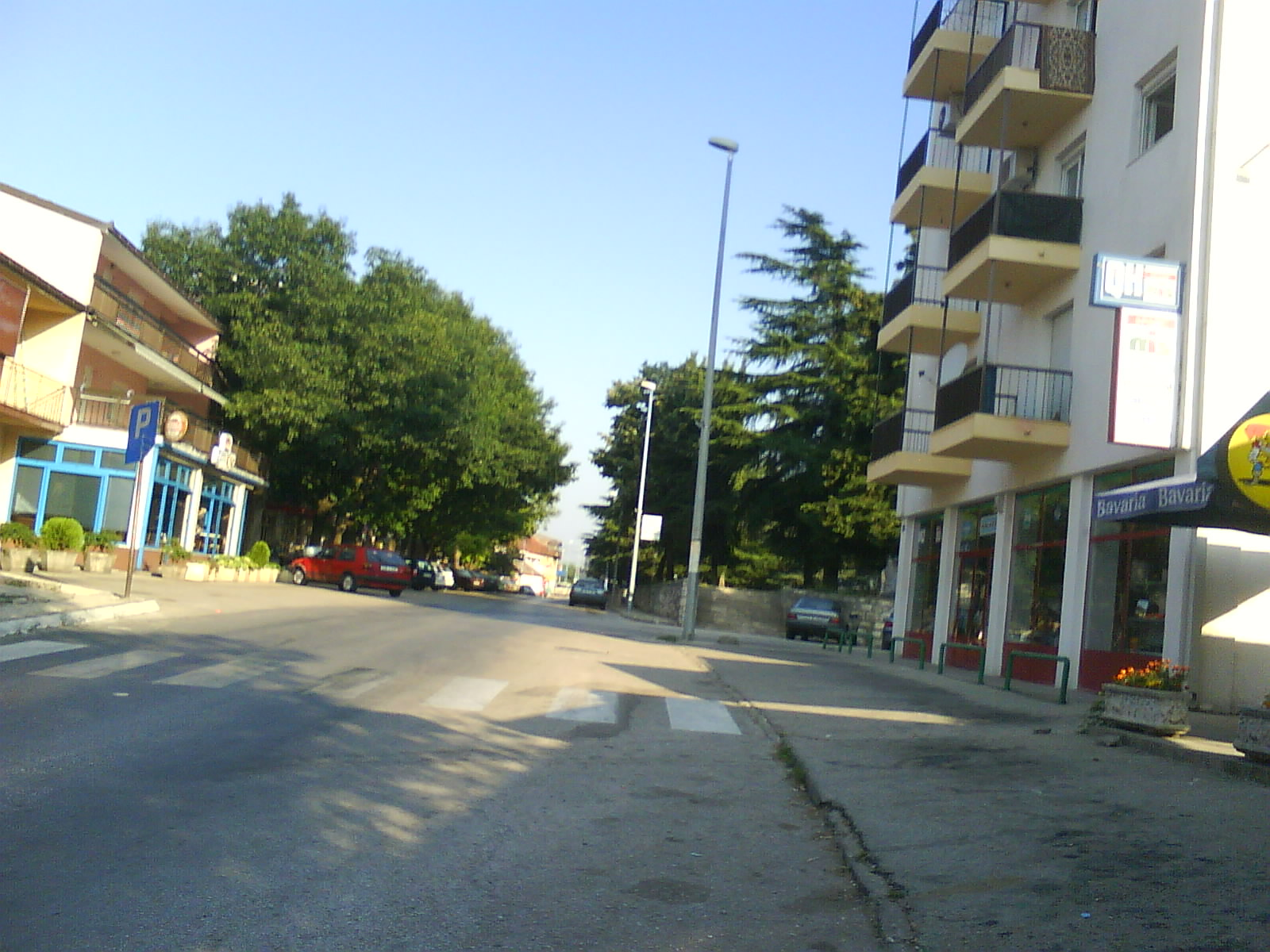 Vitez Ranko Boban street,city of Grude